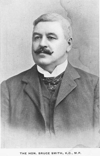 This image shows a photograph of Bruce Smith, taken ca 1910.